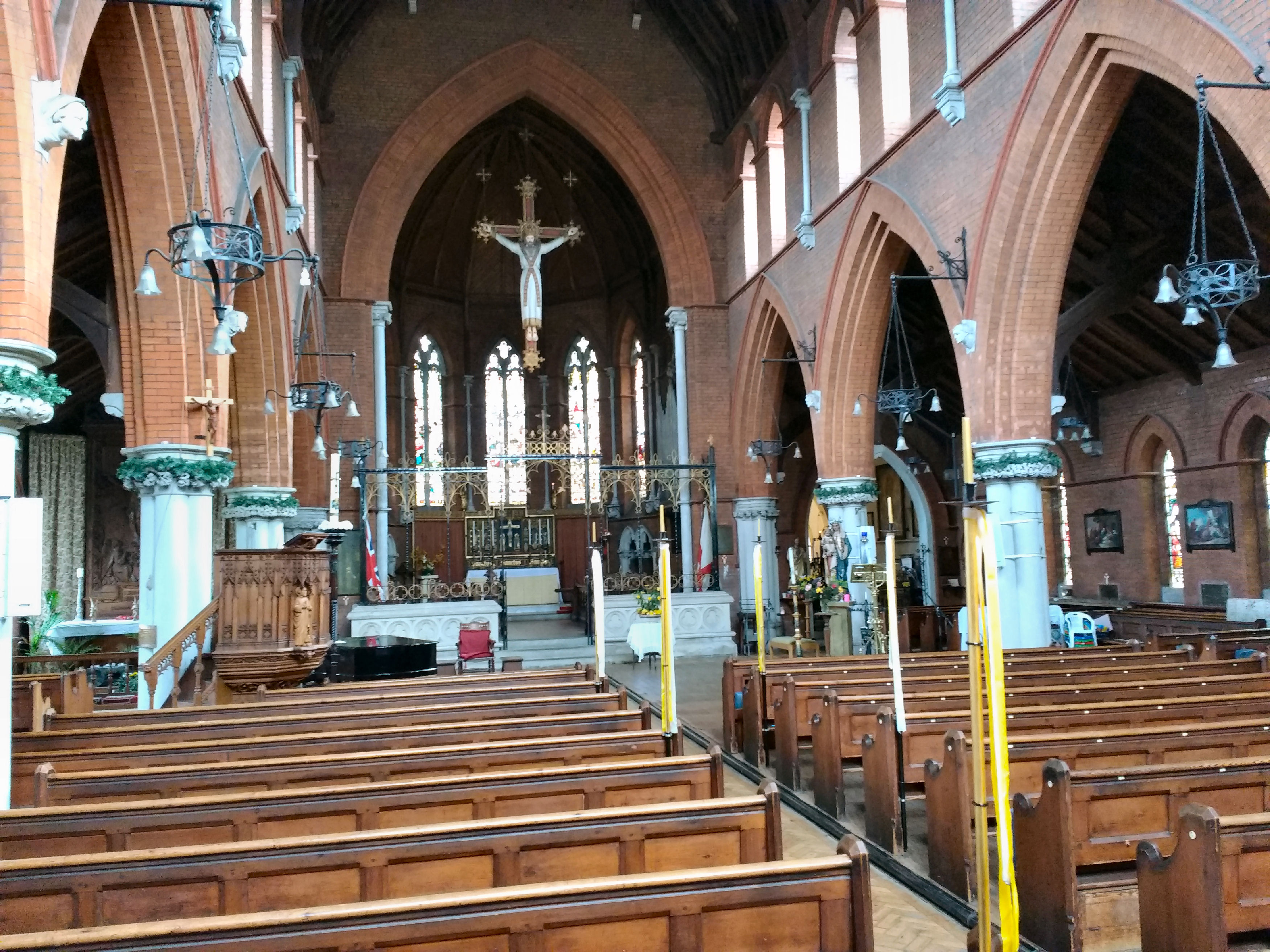 St Lukes church, Kingston-upon-Thames, interior